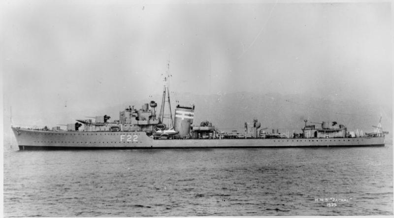 Photograph of British destroyer HMS Jackal, at anchor.